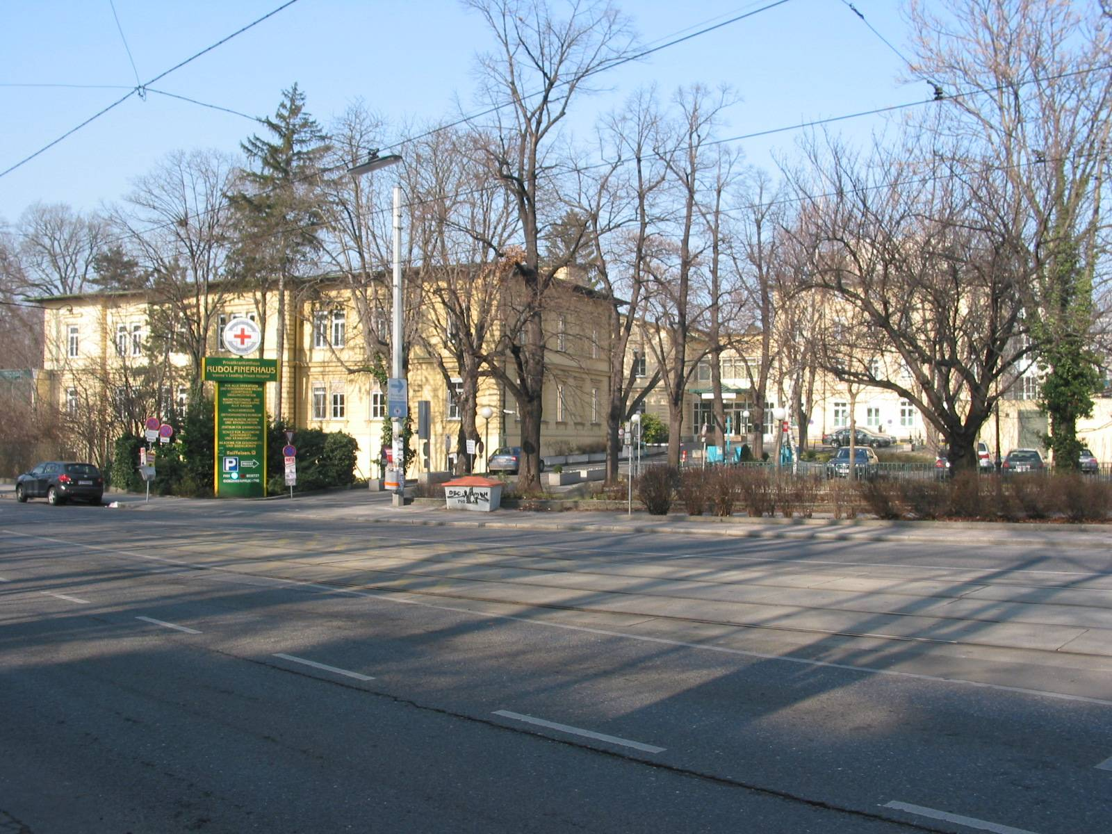 Hospital Rudolfinerhaus in Vienna-Döbling